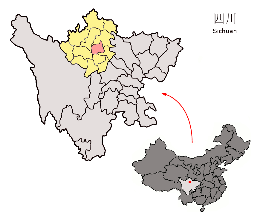 Location of Heishui County (pink) and Ngawa Prefecture (yellow) within Sichuan province of China Map drawn in september 2007 using various sources, mainly : Sichuan province administrative regions GIS data: 1:1M, County level, 1990 Sichuan Counties map from